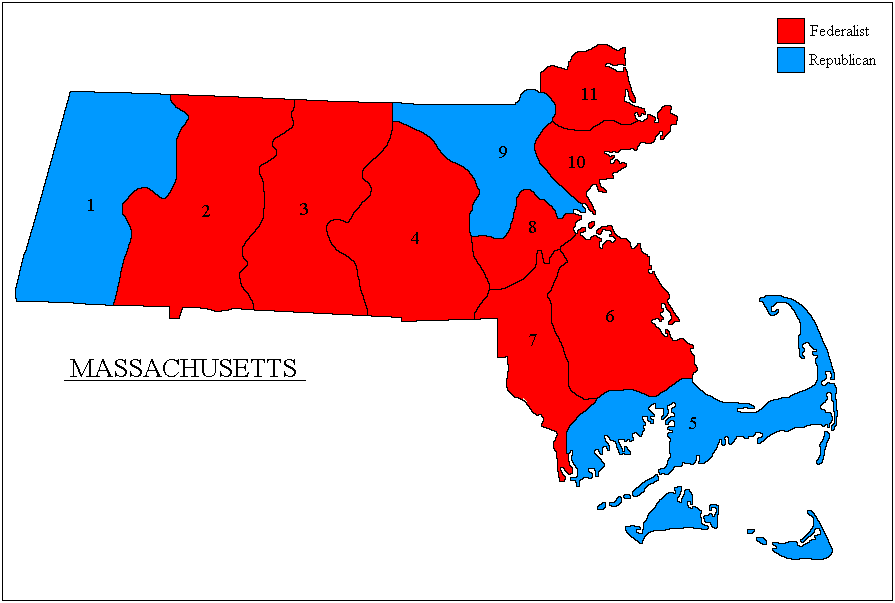 Congressional district map of Massachusetts for the 5th Congress, 1796